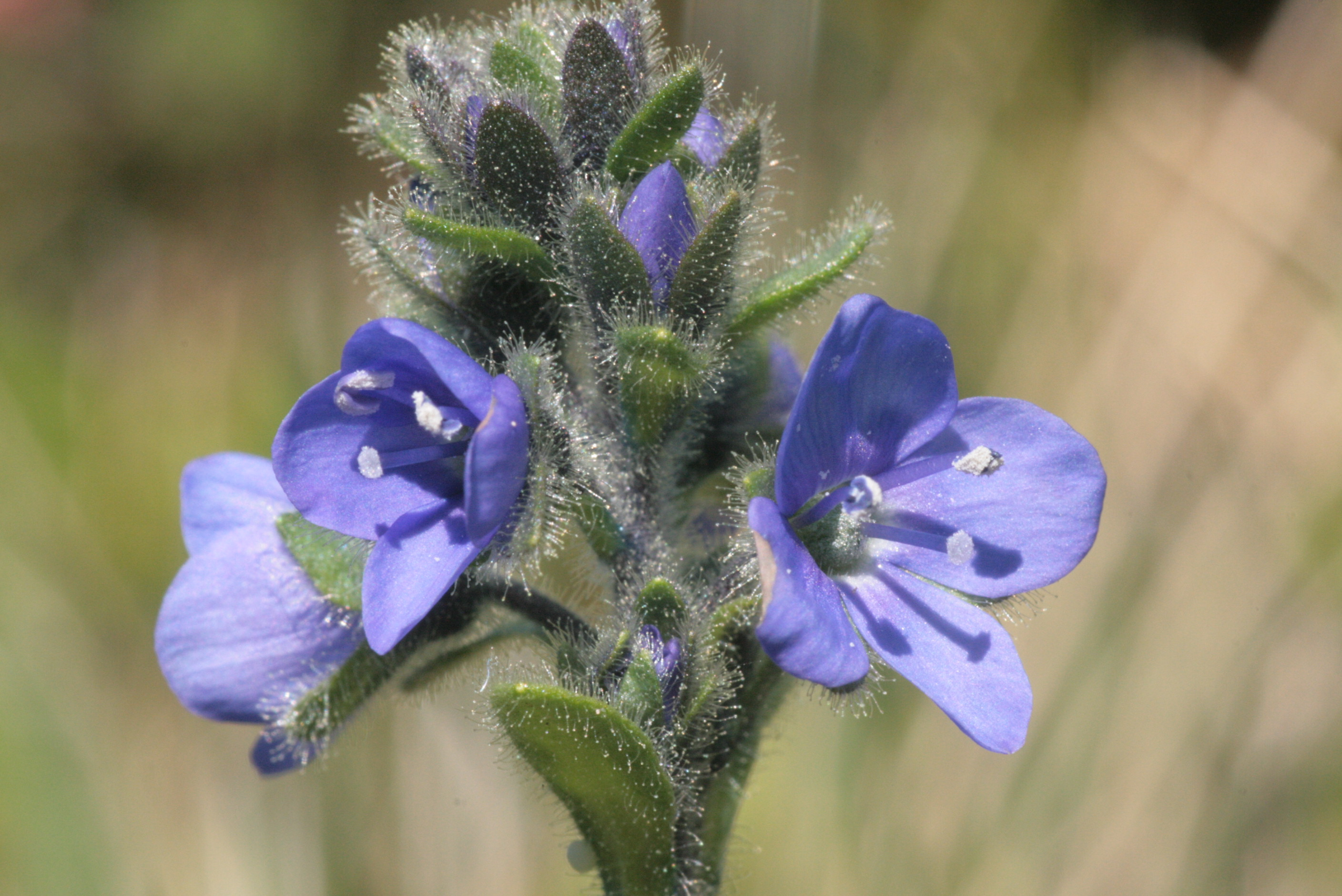 Veronica bellidioides